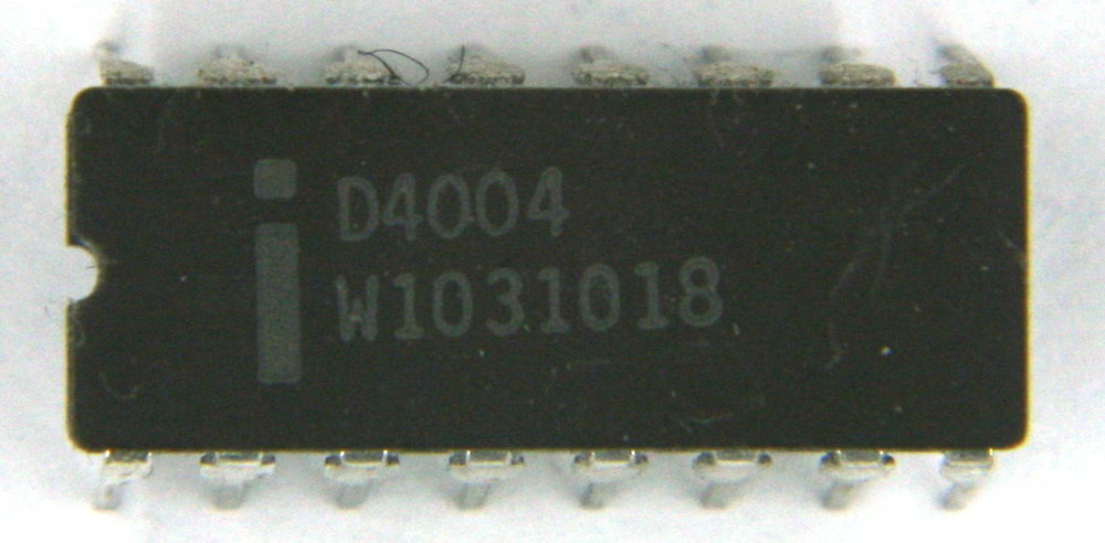 IC photo